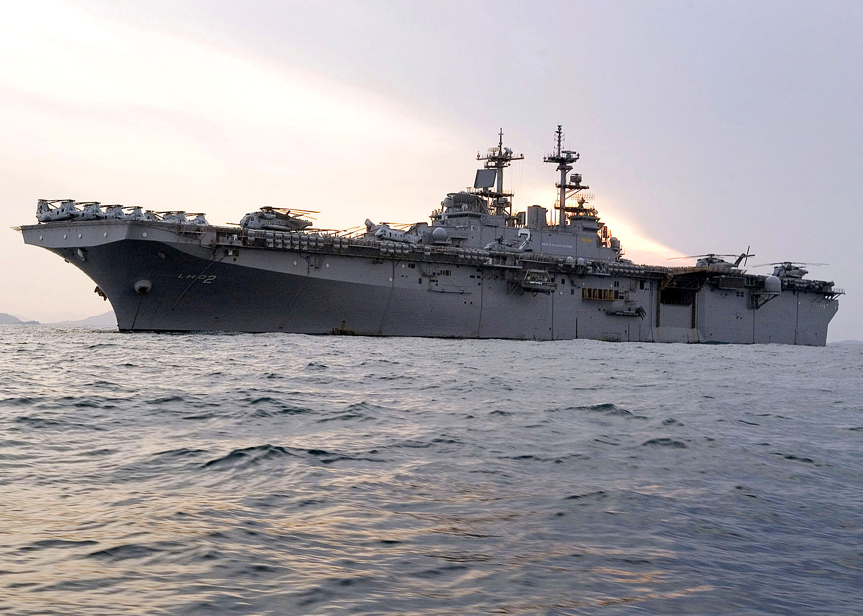 The USS Essex, anchored in the Gulf of Thailand, May 8, 2008, stands ready to assist the people of Burma, where a cyclone and tidal wave struck the nation, killing thousands and leaving hundreds of thousands homeless. The Navy is dispatching helicopters from the ship to a staging area in Thailand, where they will be able to reach Burma with relief supplies within hours. Essex is equipped with 23 helicopters and five amphibious landing craft, and carries 1,800 Marines.